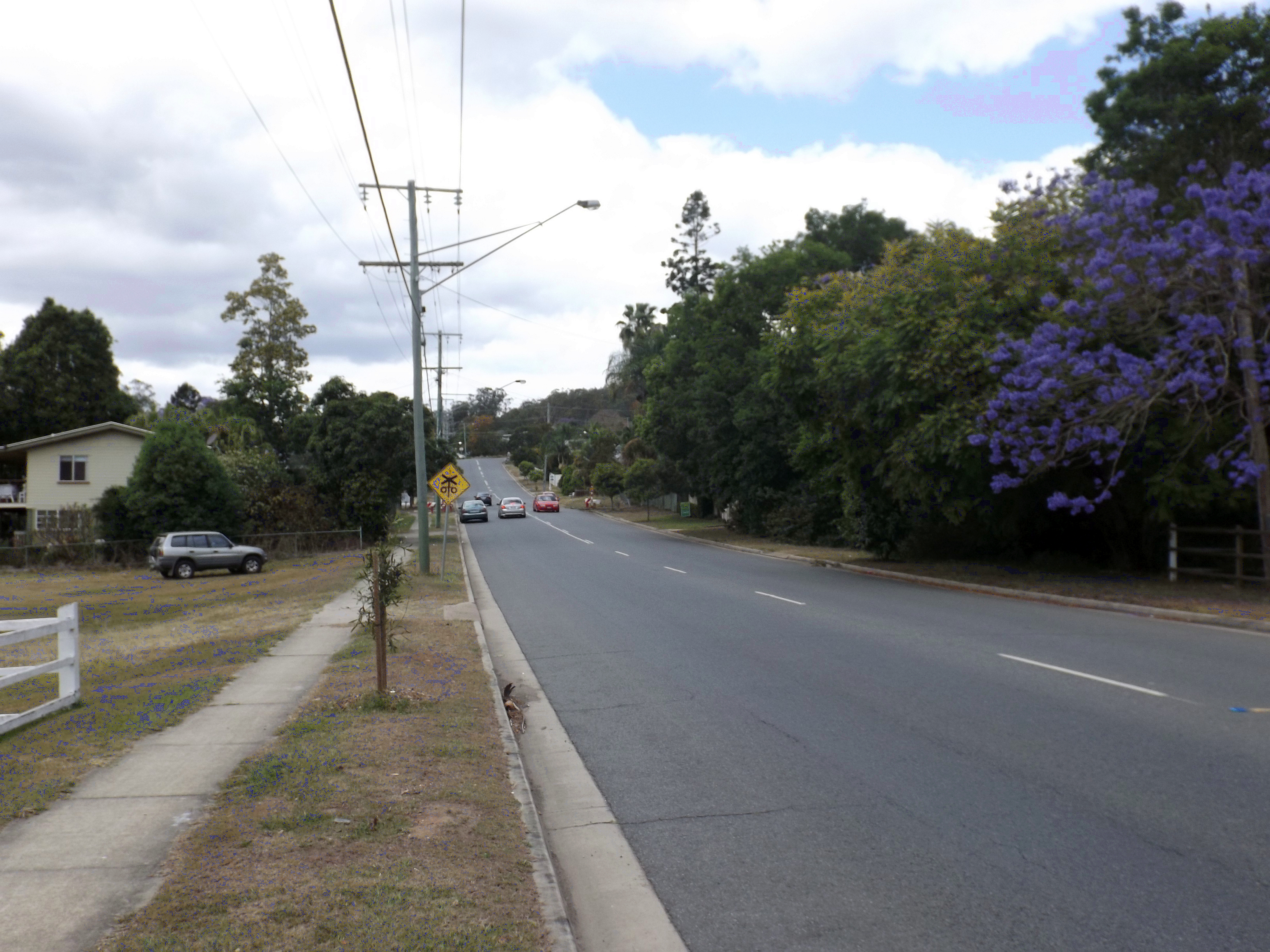 Photo of Thomas Street at Blackstone, Ipswich, Queensland, Australia.